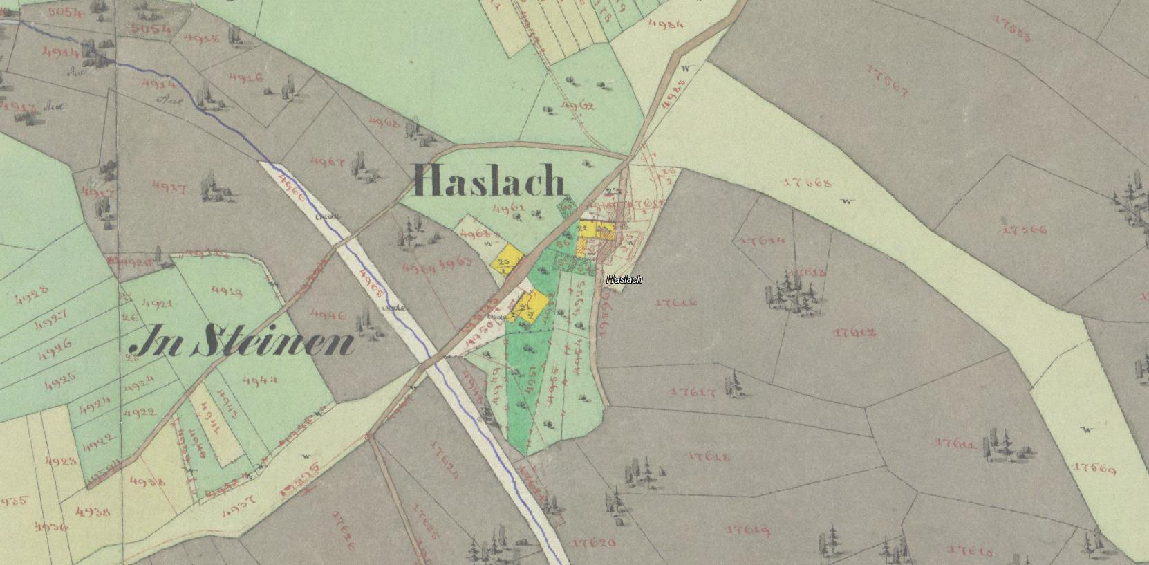 Cadastre plan of Haslach in Dornbirn in Vorarlberg, Austria.